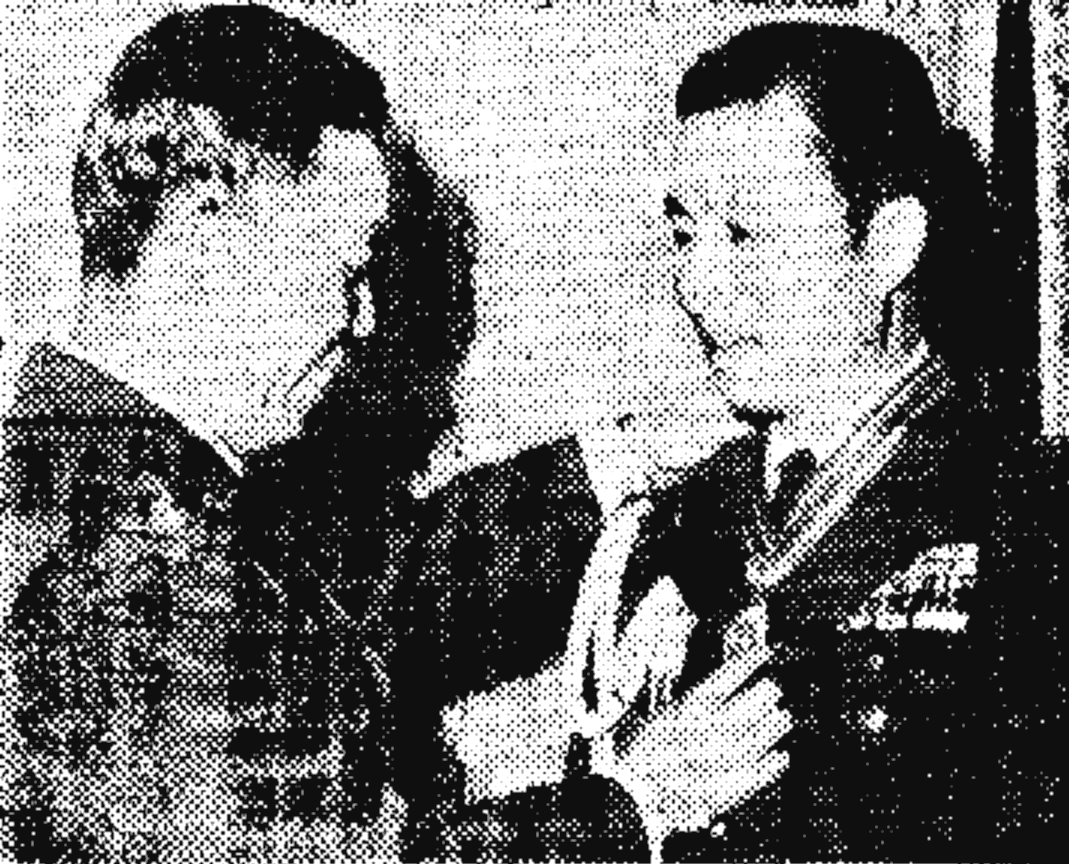 Gen. Peng Meng-chi, left, Chief of the Republic of China's General Staff, presented Col. Ock Man-ho, Air Attaché of the Republic of Korea to Taipei, with an Order of the Cloud and Banner with Cravat on behalf of the President. Ock received this Order for his contribution in enhancing Sino-Korean military cooperation and promoting traditional tri-service friendship between the two countries during his term of office.